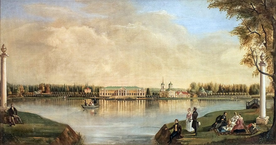 Kuskovo Palace and Estate of the Counts Sheremetev in Moscow. Watercolour from 1839.